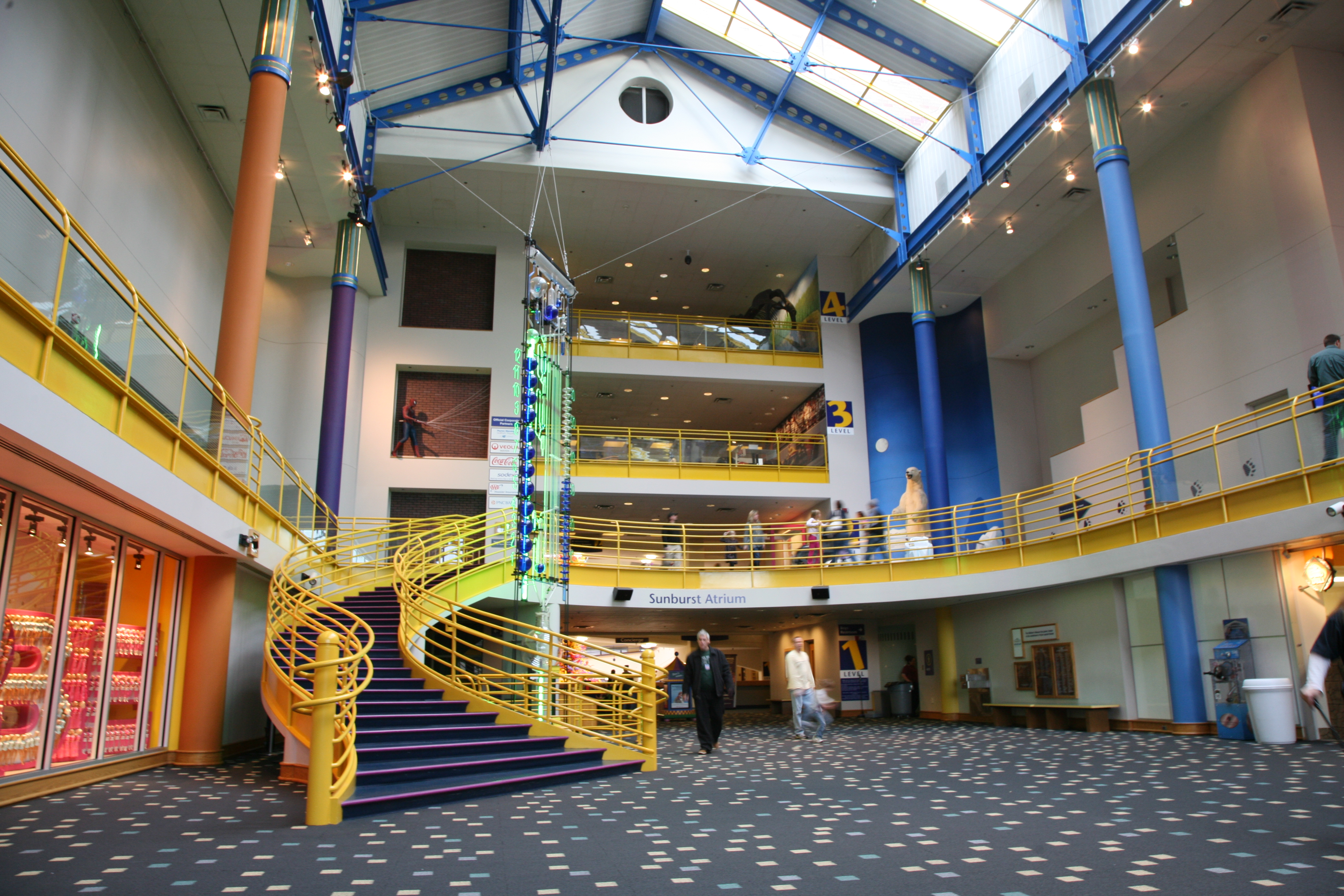 Interior of The Children's Museum of Indianapolis.